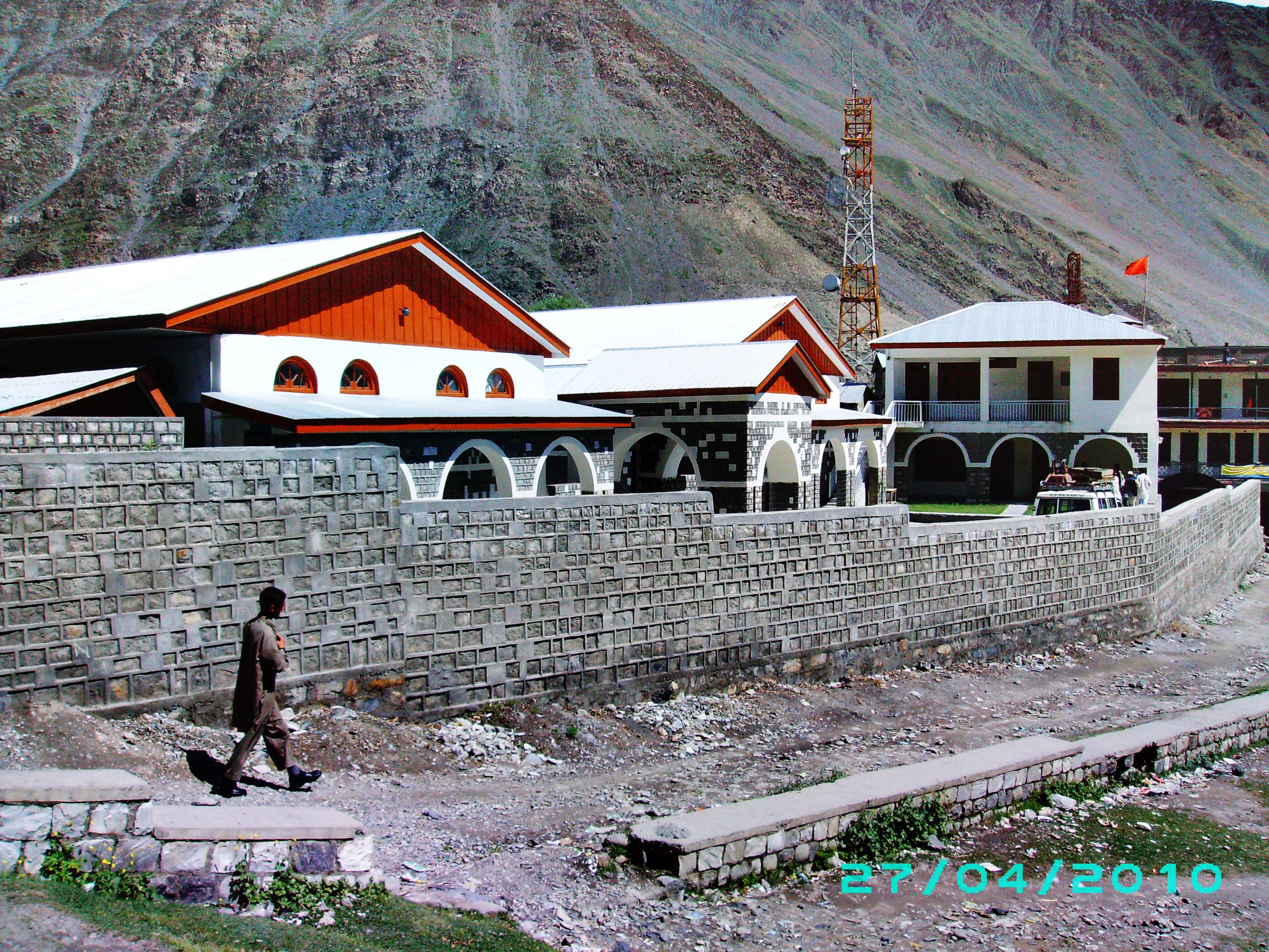 Chitral Museum